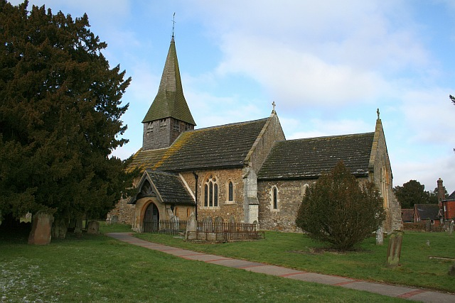 Church of St John the Baptist, Capel Partly dating from the C12, but heavily restored in the C19.